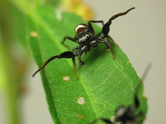 Agonistic display behavior between two male Zygoballus sexpunctatus jumping spiders. Cropped screenshot from the video "Interactions of male and female Zygoballus sexpunctatus jumping spiders in Greenville County, SC, USA".